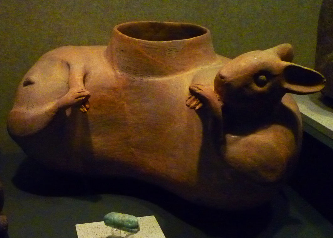 Rabbitshaped Aztec vessel for containing pulque